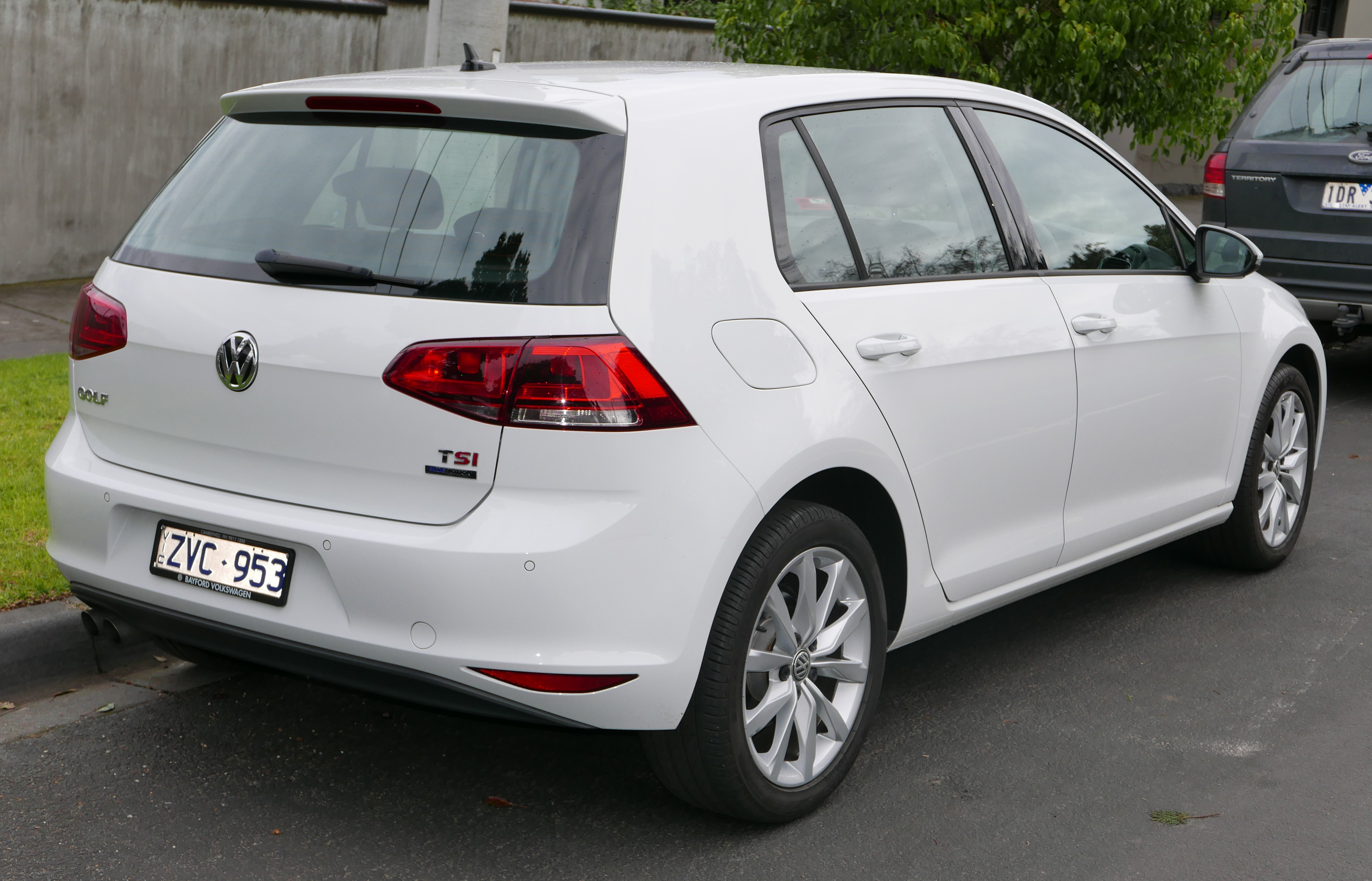 2013 Volkswagen Golf (5G MY13) 103TSI Highline 5-door hatchback. Photographed in Hawthorn East, Victoria, Australia. Vehicle registration enquiry results Jurisdiction Victoria Registration ZVC953 Chassis code WVWZZZAUZDP069170 Engine code CHP005282 Compliance date 2013-07 Year of manufacture 2013